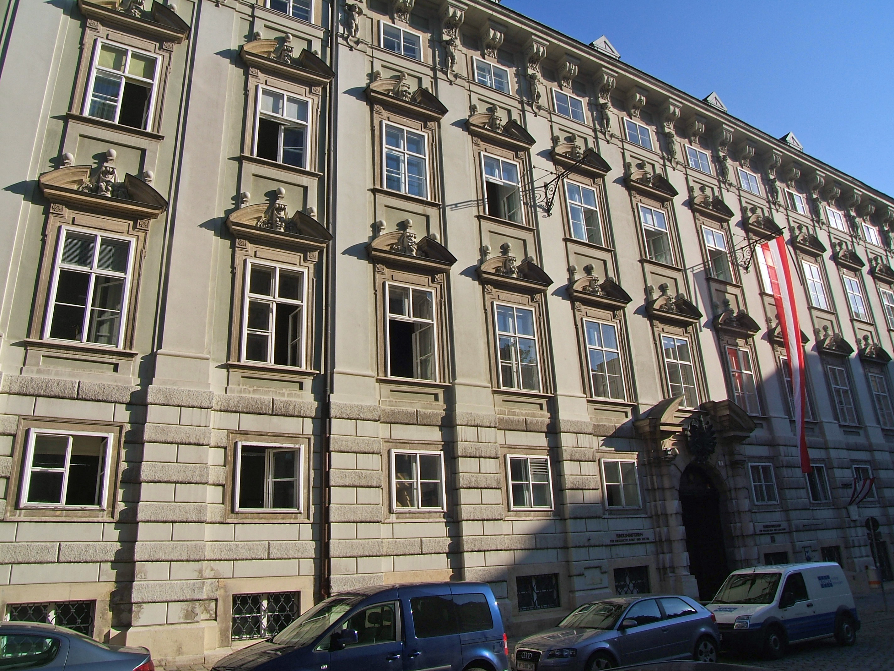 Palais Starhemberg in Vienna Minotitenplatz 5